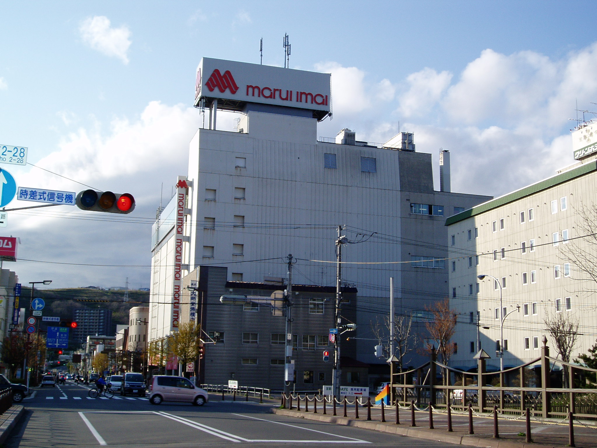 Hokkaido MARUI IMAI Inc. MARUI IMAI Muroran Shops